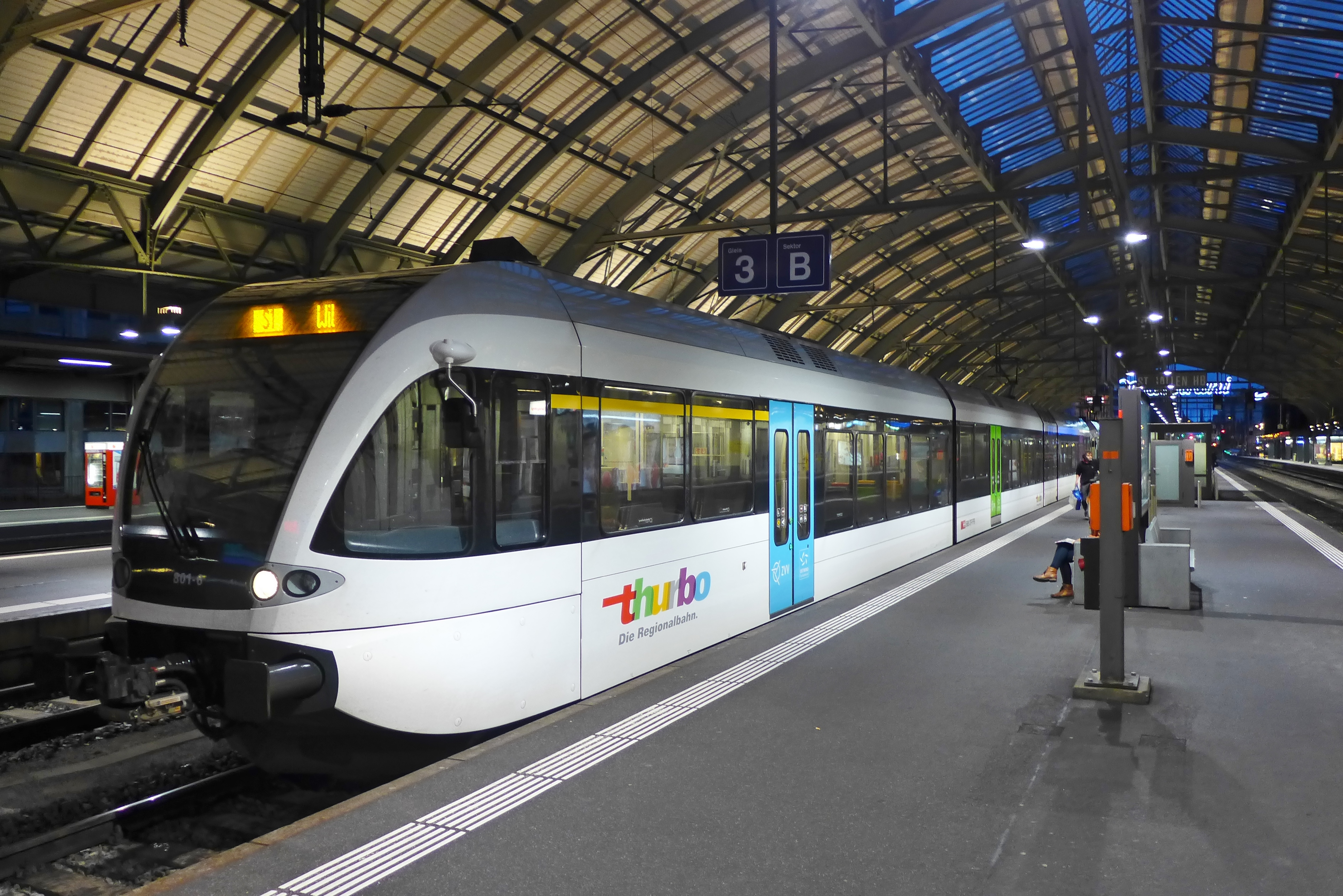 Thurbo RABe 526 class multiple unit train number 801-6 awaits departure from St.Gallen railway station, Switzerland, with an S1 service to Wil.